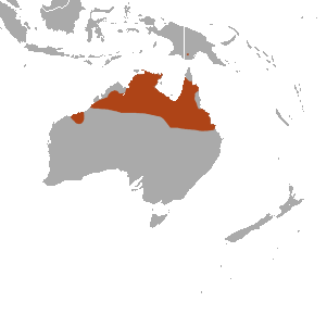 Spectacled Hare Wallaby (Lagorchestes conspicillatus) range